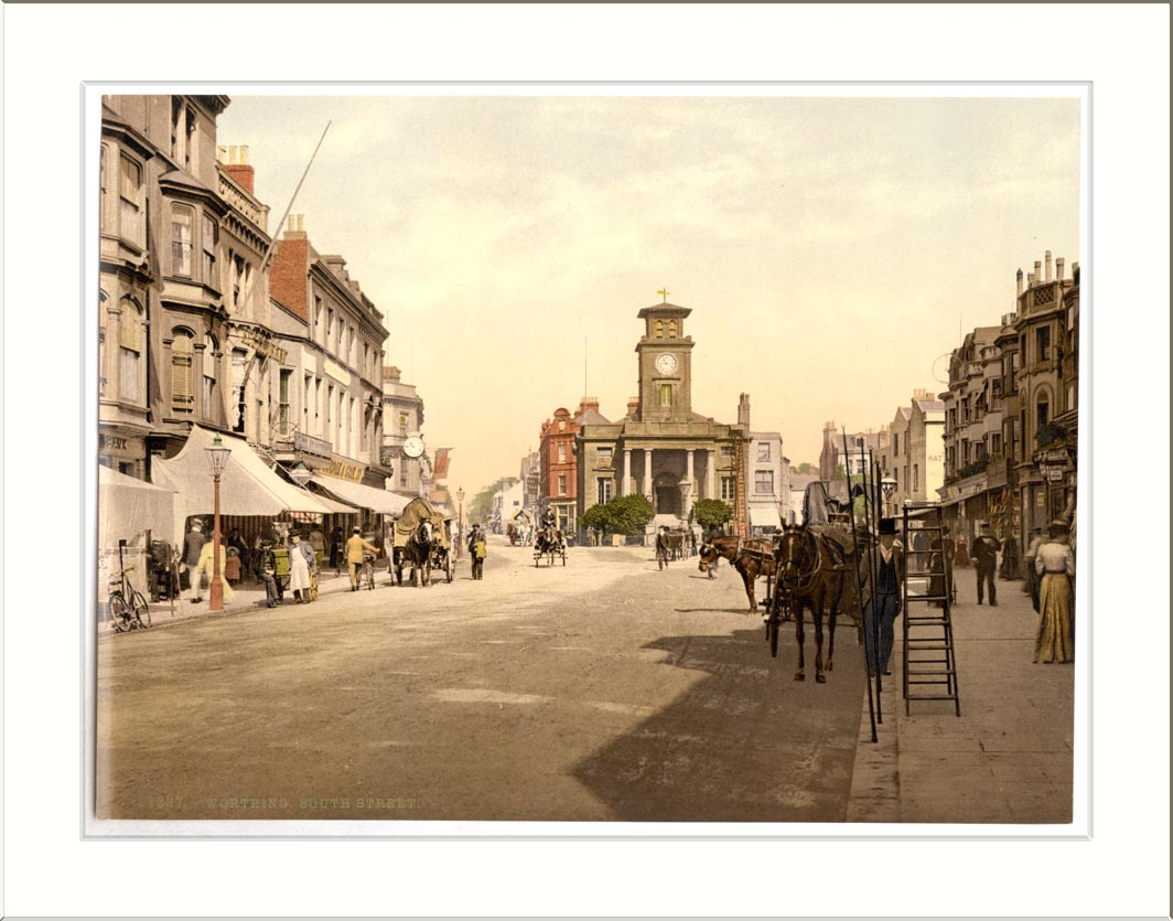 South Street Worthing England